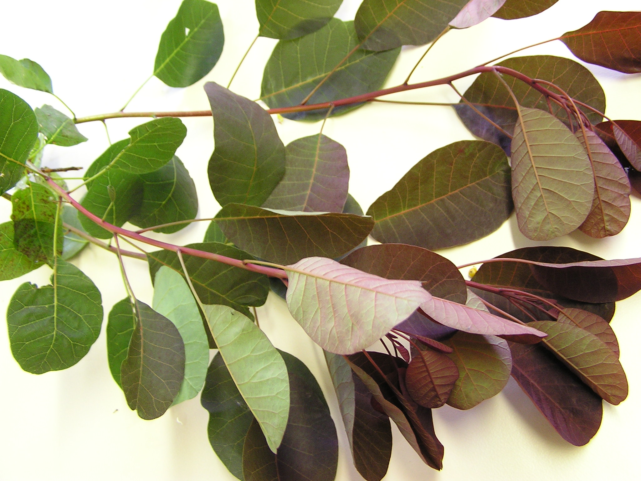 Cotinus coggygria Picture taken with Olympus 740 UltraZoom.